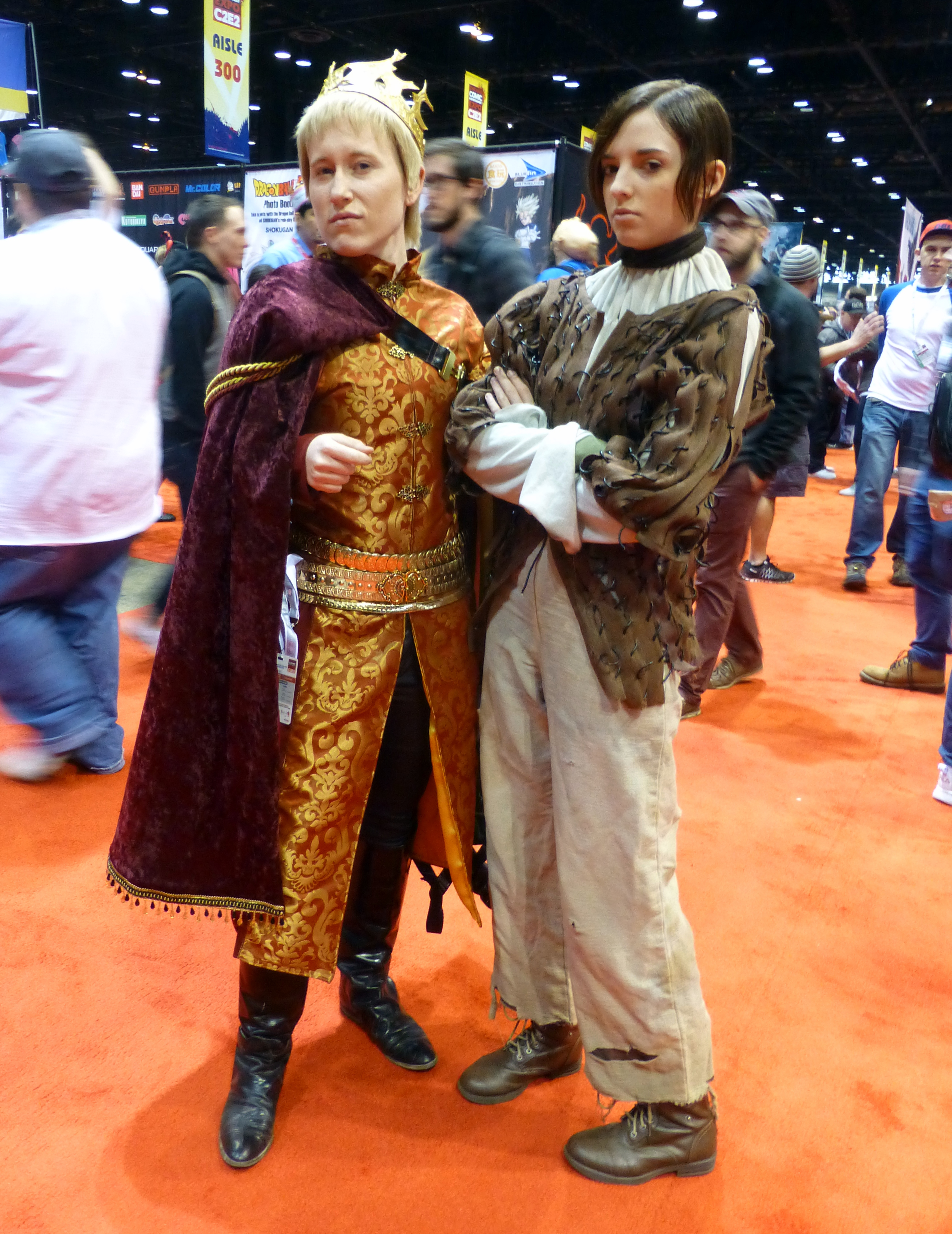 King Joffrey and Arya Stark Cosplay at Chicago Comic & Entertainment Expo (C2E2) 2015.